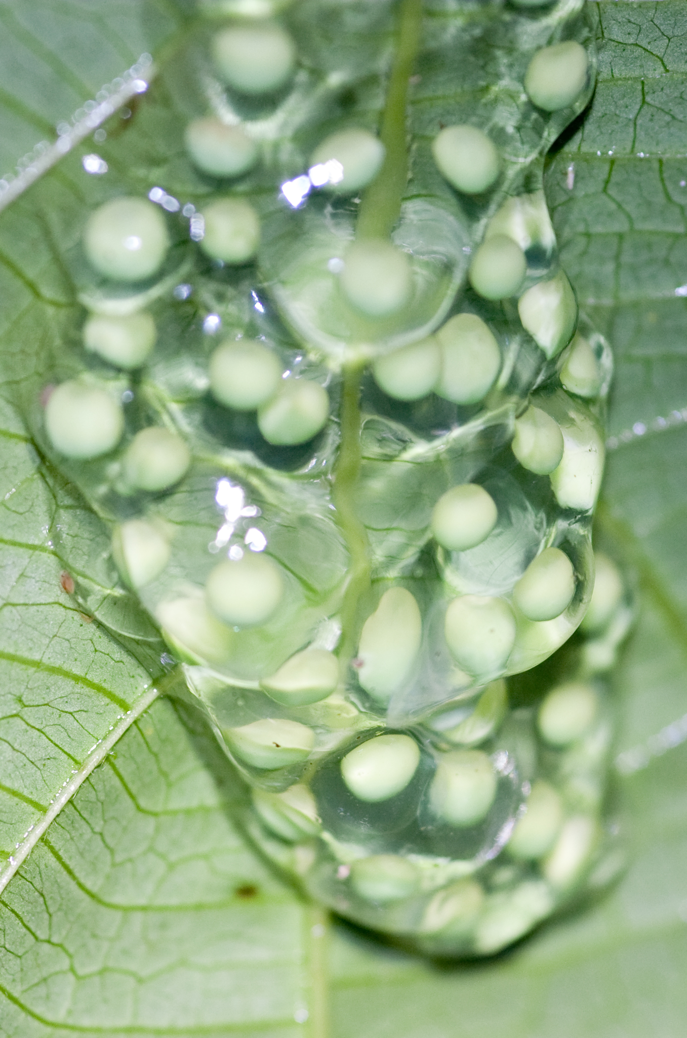 Red-eyed Tree Frog (Agalychnis callidryas) eggs